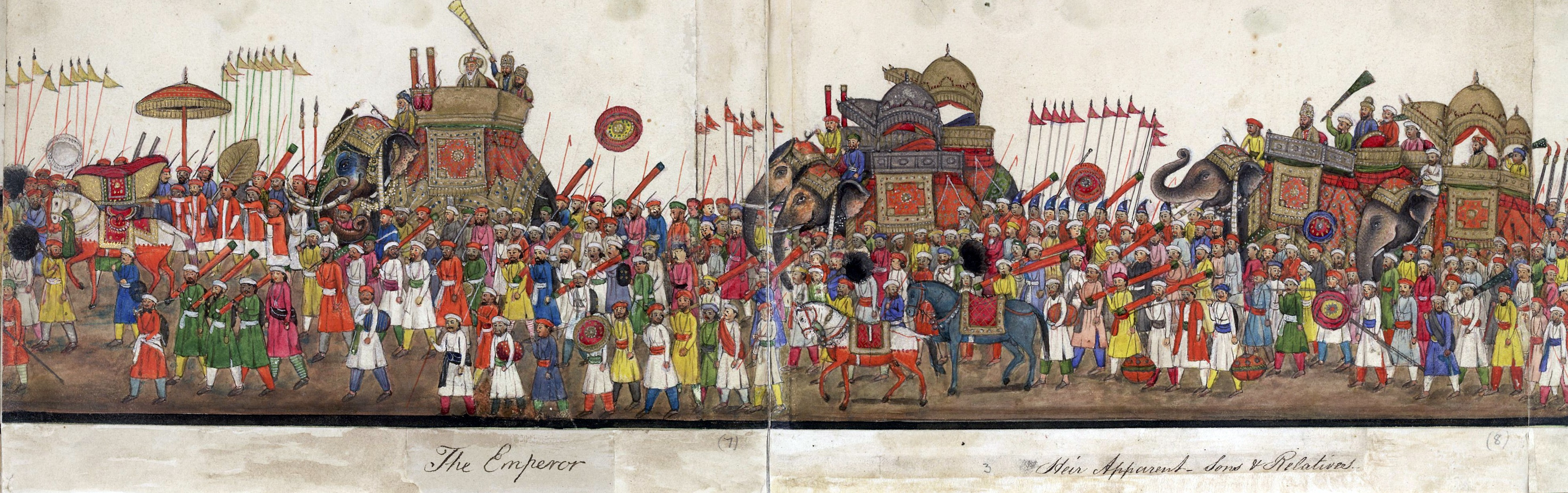 A panorama in 12 folds showing the procession of the Emperor Bahadur Shah to celebrate the feast of the 'Id., 1843. Bahadur Shah Zafar on the elephant, and the heir apparent in the third elephant. Inscribed: The Emperor. Heir Apparent Sons & Relatives.' From 'Reminiscences of Imperial Delhi', an album consisting of 89 folios containing approximately 130 paintings of views of the Mughal and pre-Mughal monuments of Delhi, as well as other contemporary material, with an accompanying manuscript text written by the artist, the Governor-General’s Agent at the imperial court.